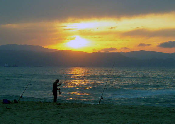 Fishing at sunset, Algerian Coastline